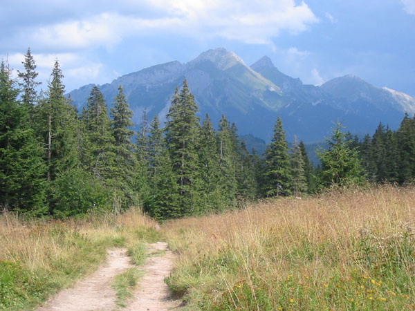 High Tatra Mountains in Southern Poland